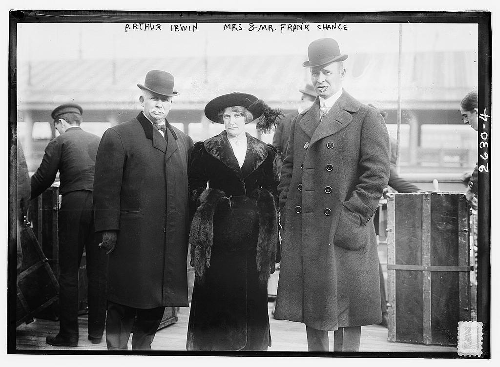 New York baseball executive Arthur Irwin (left) pictured with NY manager Frank Chance and his wife